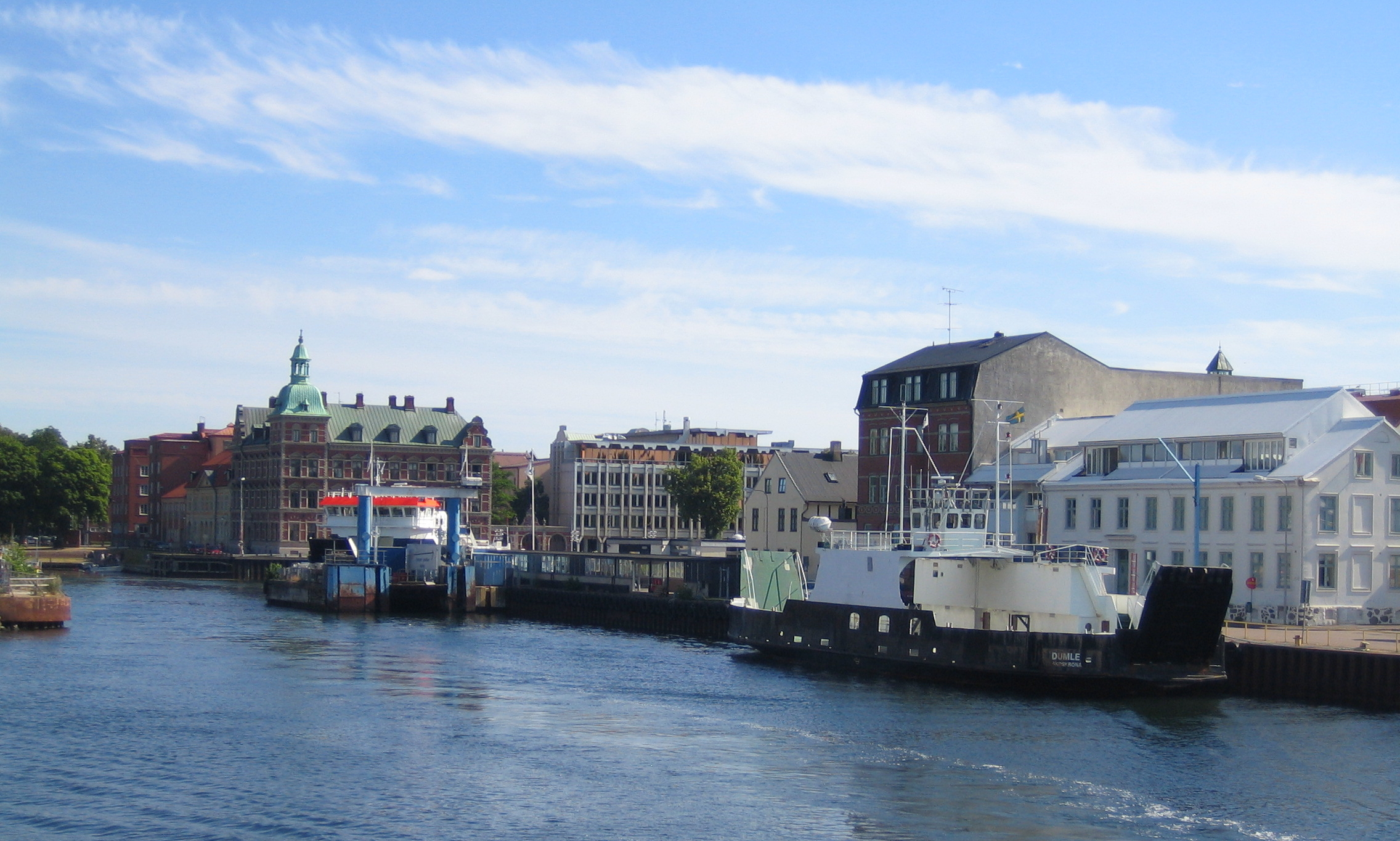 Landskrona harbour.